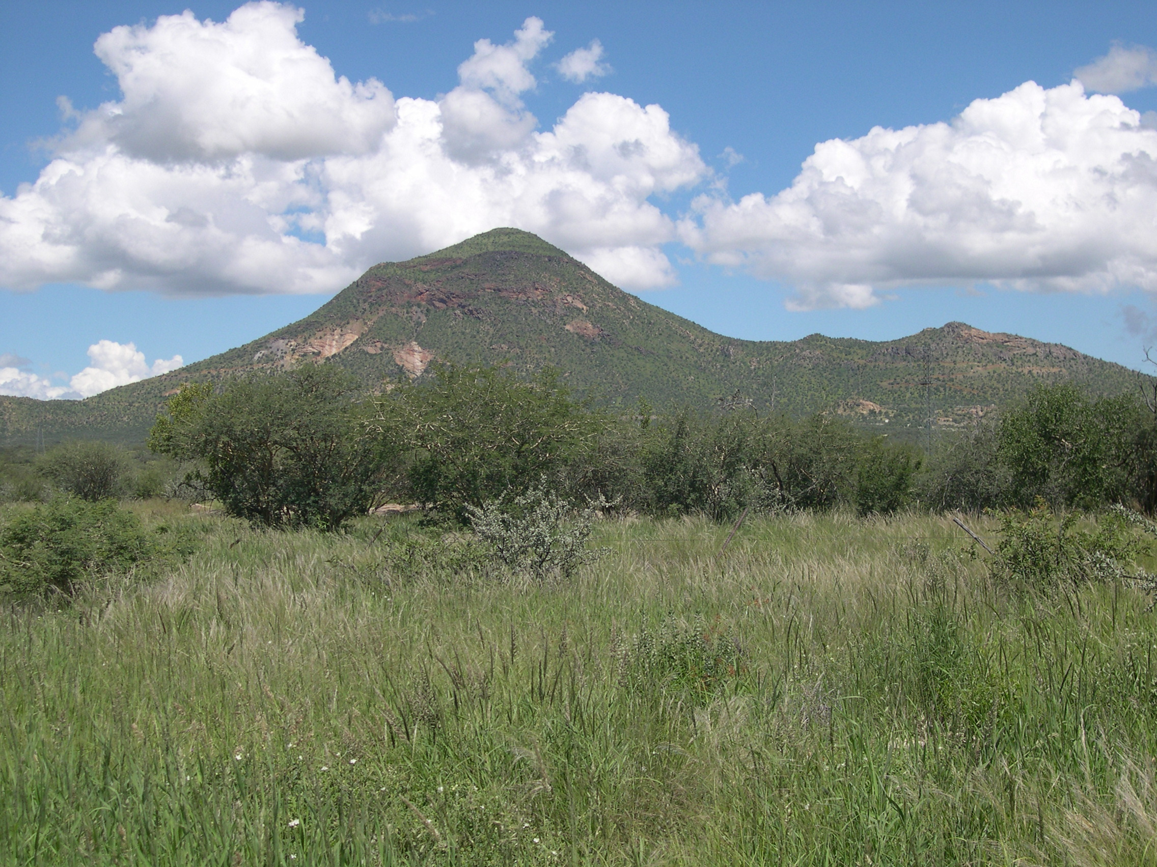 View of Krantzberg Mountain (1713 m above sea level) near Omaruru in the northern foothills of the Erongo Mountains, Namibia.